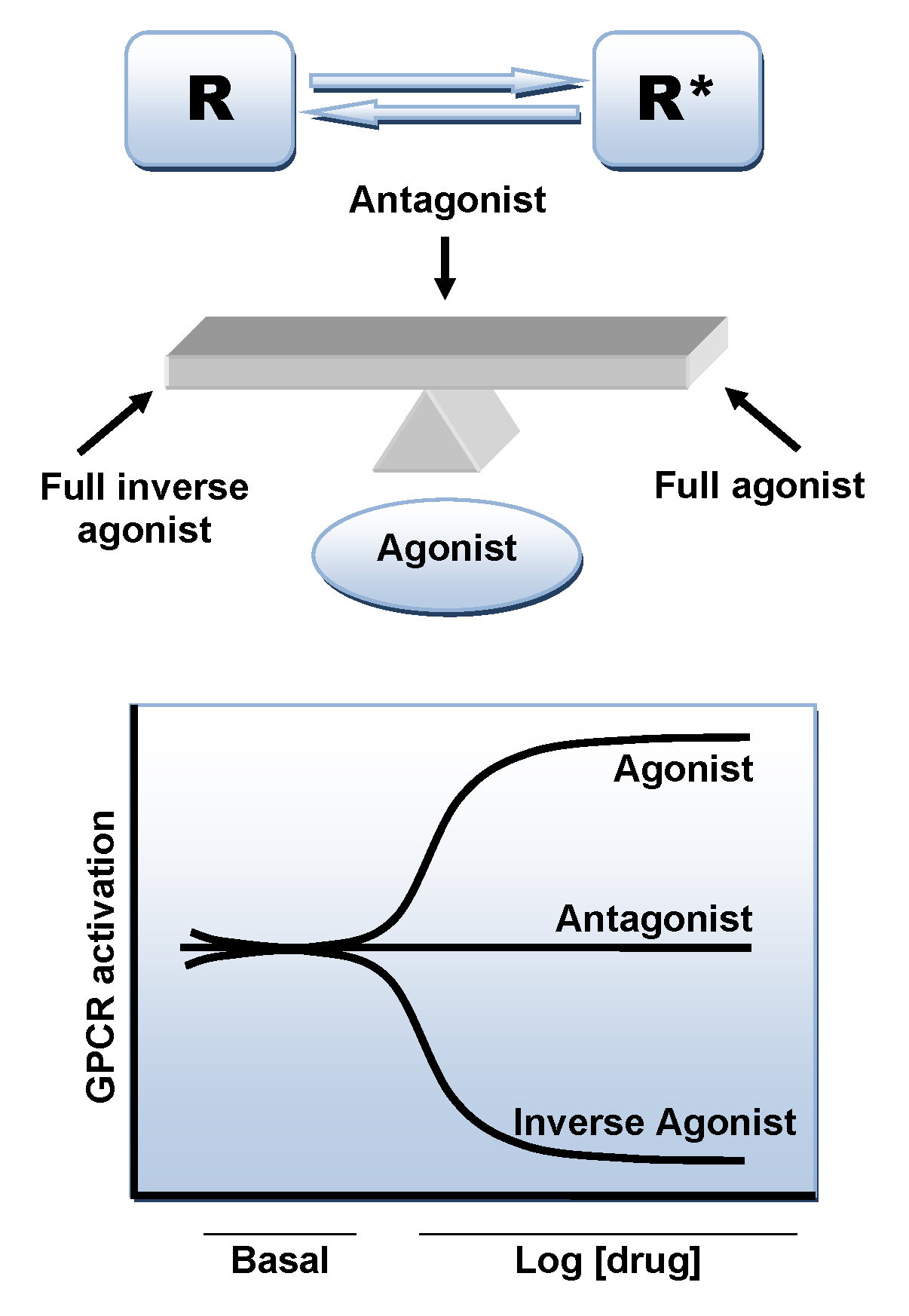 Schematic representation of the two state-model of CB1 receptor activation, in which receptors are in equilibrium between two states, active and inactive (R* and R). An agonist will stabilize the active state leading to activation, a neutral antagonist binds equally to active and inactive states, whereas an inverse agonist will preferentially stabilize the inactive state